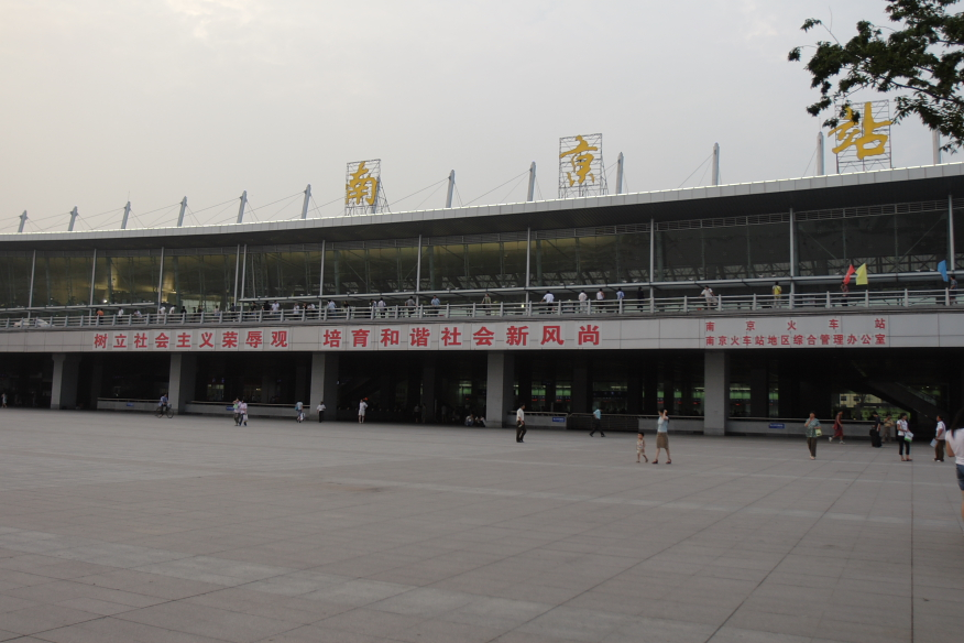 社会主义荣辱观, Eight Do's and Don'ts